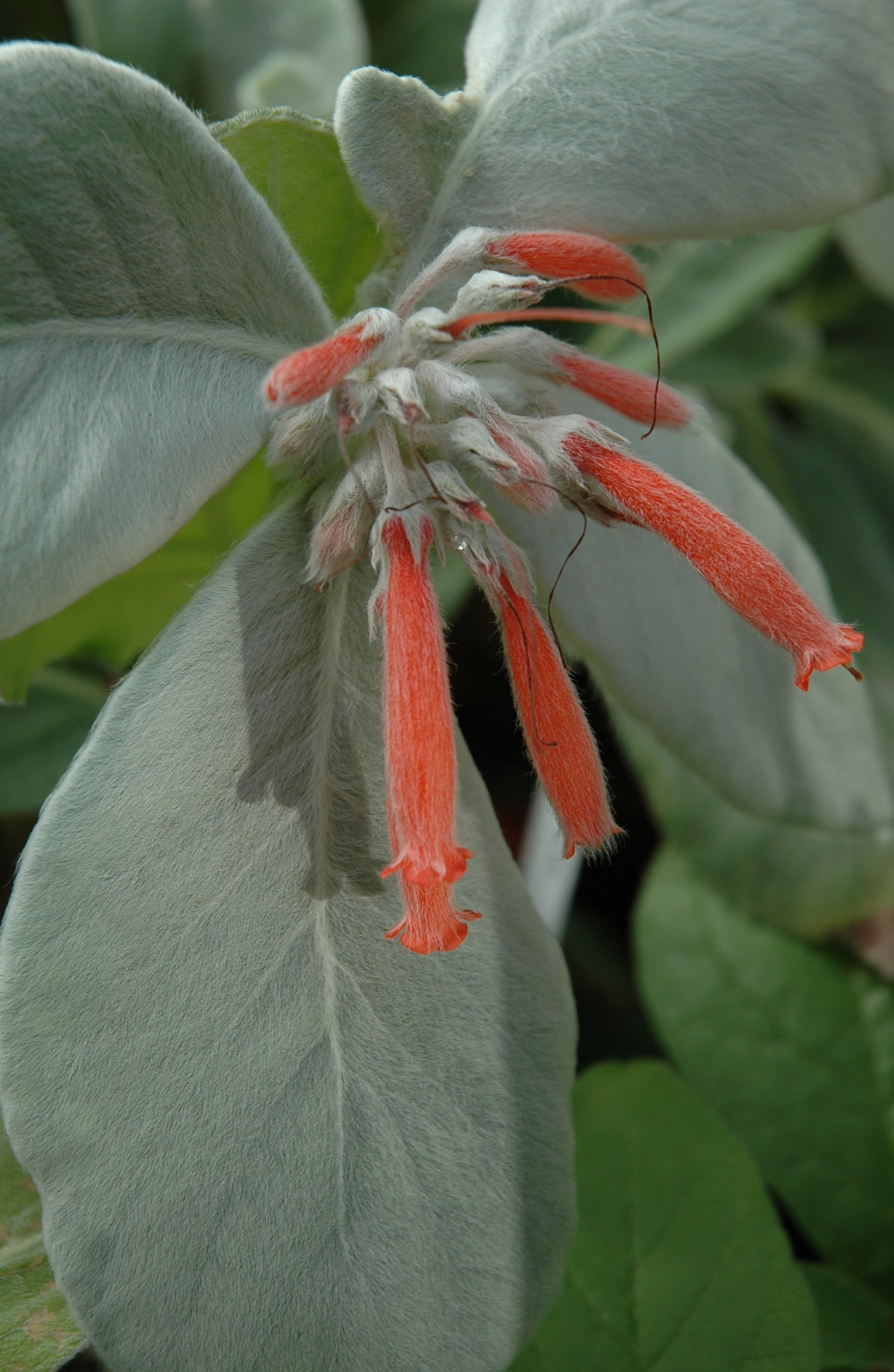 Inflorescence of Sinningia canescens